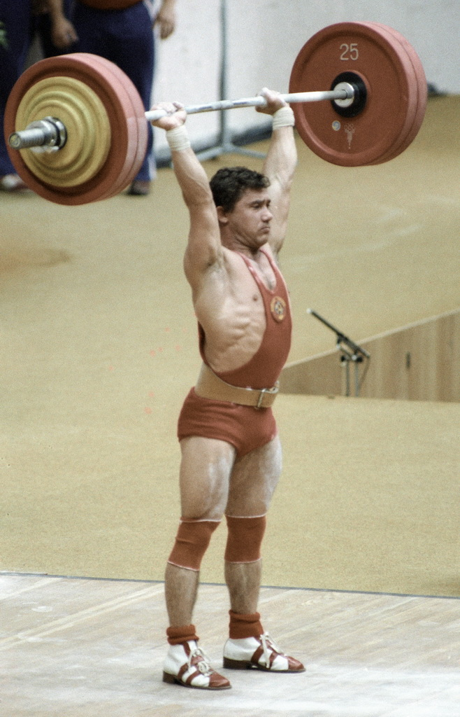 “Soviet weight-lifter Viktor Mazin during the XXII Olympic Games”. Soviet weight-lifter Viktor Mazin during the XXII Olympic Games in Moscow.